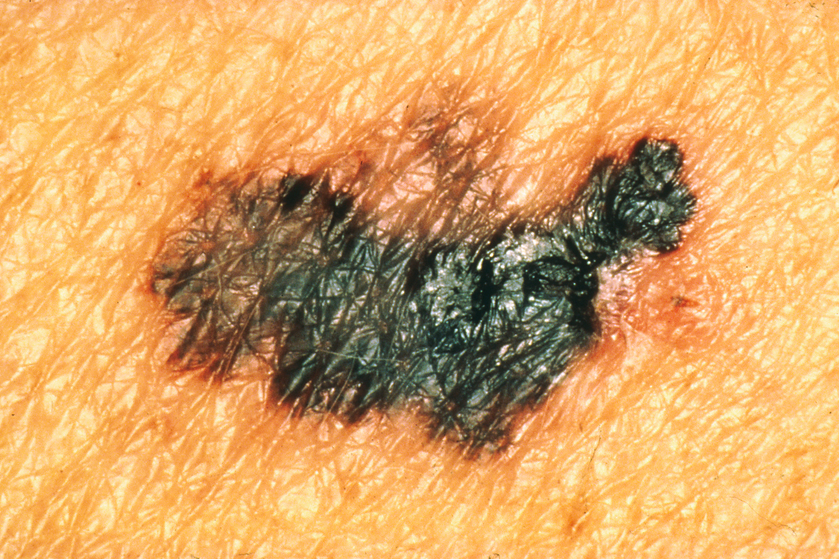 Title Melanoma with Color Differences Description Seen is melanoma, with coloring of different shades of brown, black, or tan. Part of the ABCDs for detection of melanoma. For additional resource, see the following web site: Topics/Categories Anatomy -- Skin Cancer Types -- Melanoma Cancer Types -- Skin Cancer Cells or Tissue -- Abnormal Cells or Tissue Type Color, Photo Source Skin Cancer Foundation